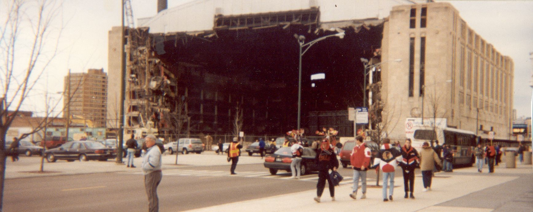 Chicago Stadium in the process of demolition. Photo taken from outside the United Center before a Blackhawks game.